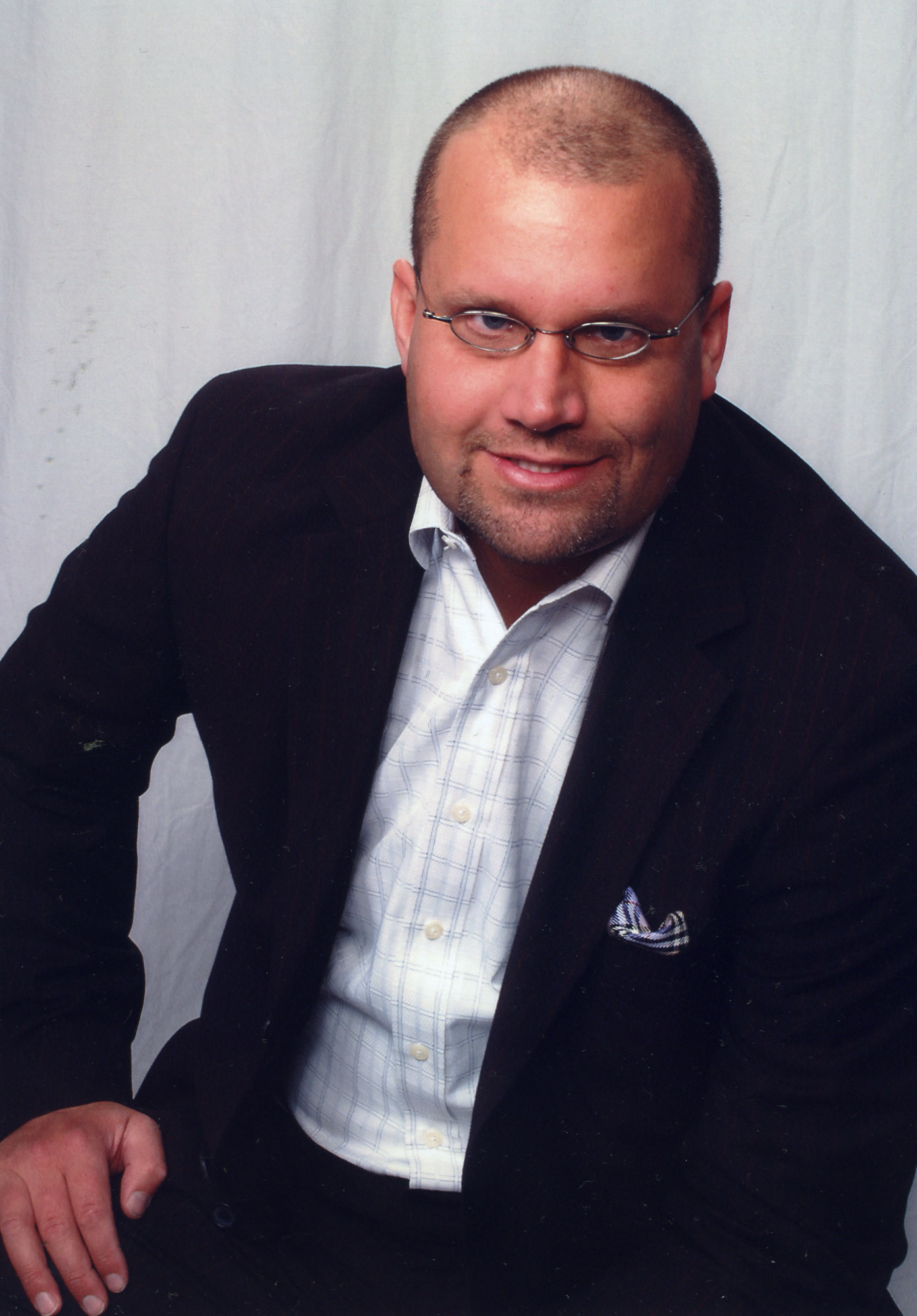 A file photo of Richard Stromback.